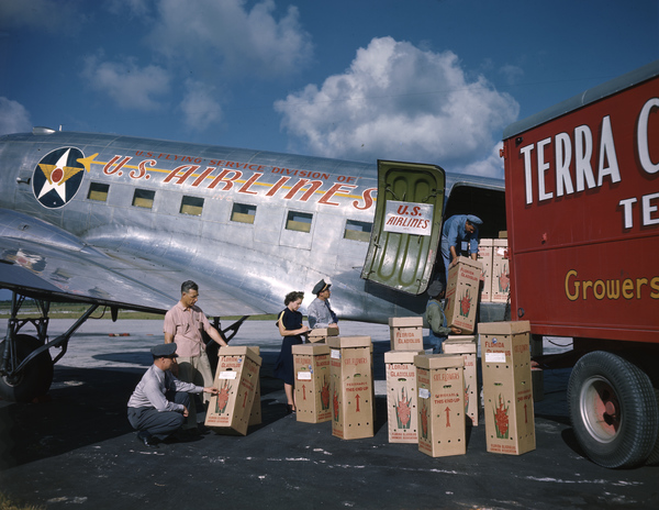 Persistent URL: Local call number: JJS0363 Title: Terra Ceia Island Farms gladiolus being loaded onto a U.S. Airlines plane at the Sarasota Airport Date: May 8, 1947 Physical descrip: 1 transparency - col. - 4 x 5 in. Series Title: Joseph Janney Steinmetz Collection Repository: State Library and Archives of Florida , 500 S. Bronough St., Tallahassee, FL 32399-0250 USA. Contact: 850.245.6700.